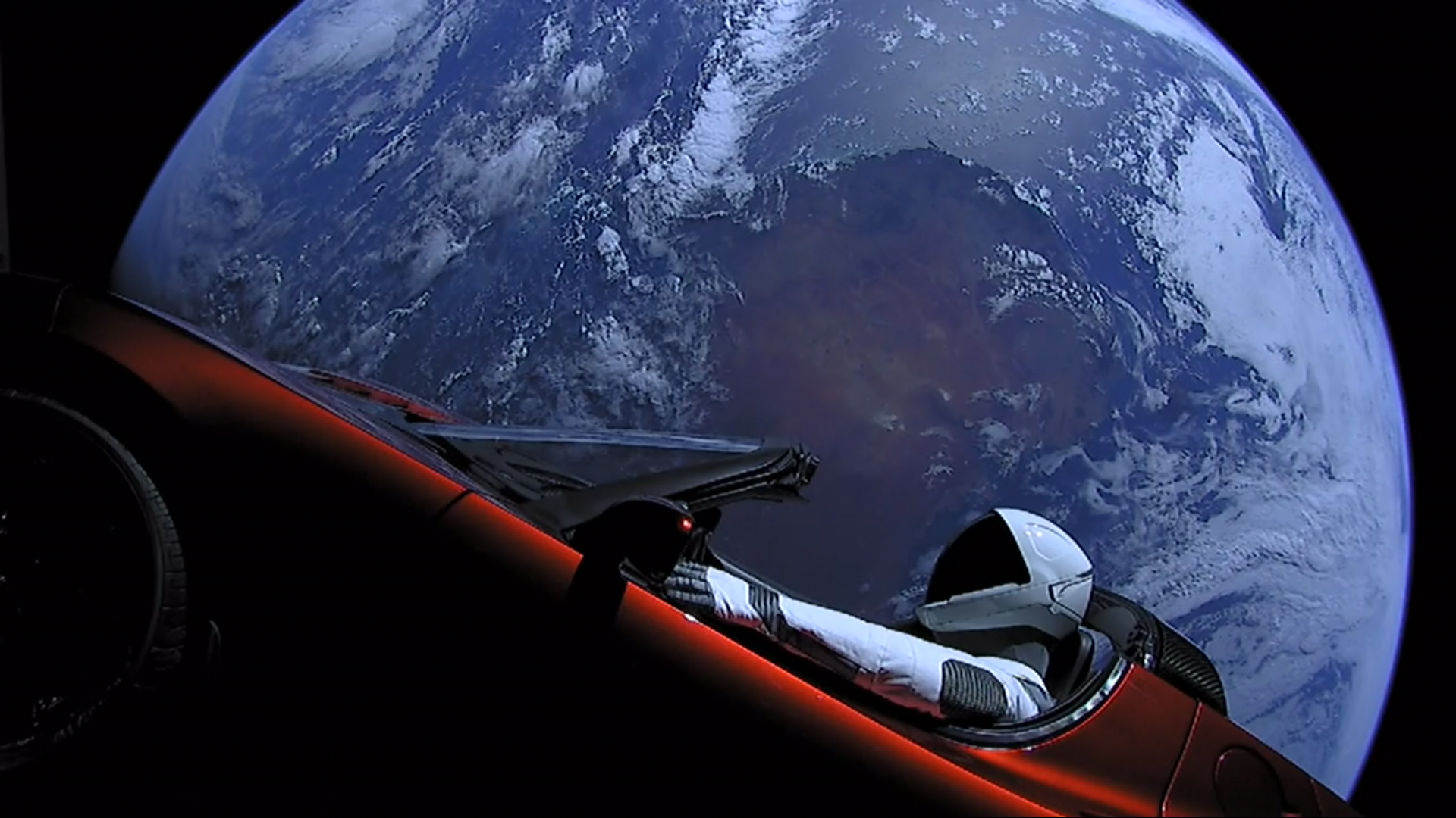 Elon Musk's Tesla Roadster, with Earth in background. "Spaceman" mannequin wearing SpaceX Spacesuit in driving seat. Camera mounted on external boom.